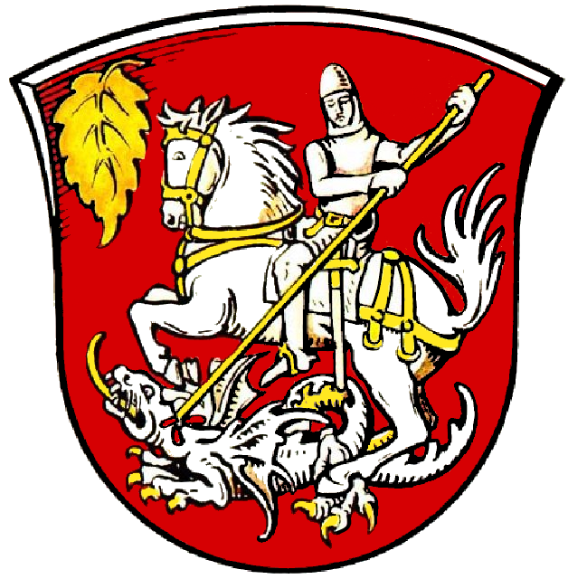 Coat of Arms of Birkenfeld